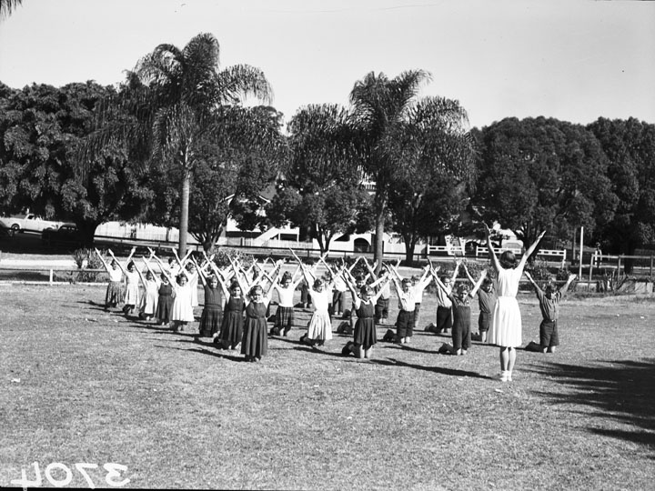 Milton State School, physical education activity, Brisbane. (Teachers Training)